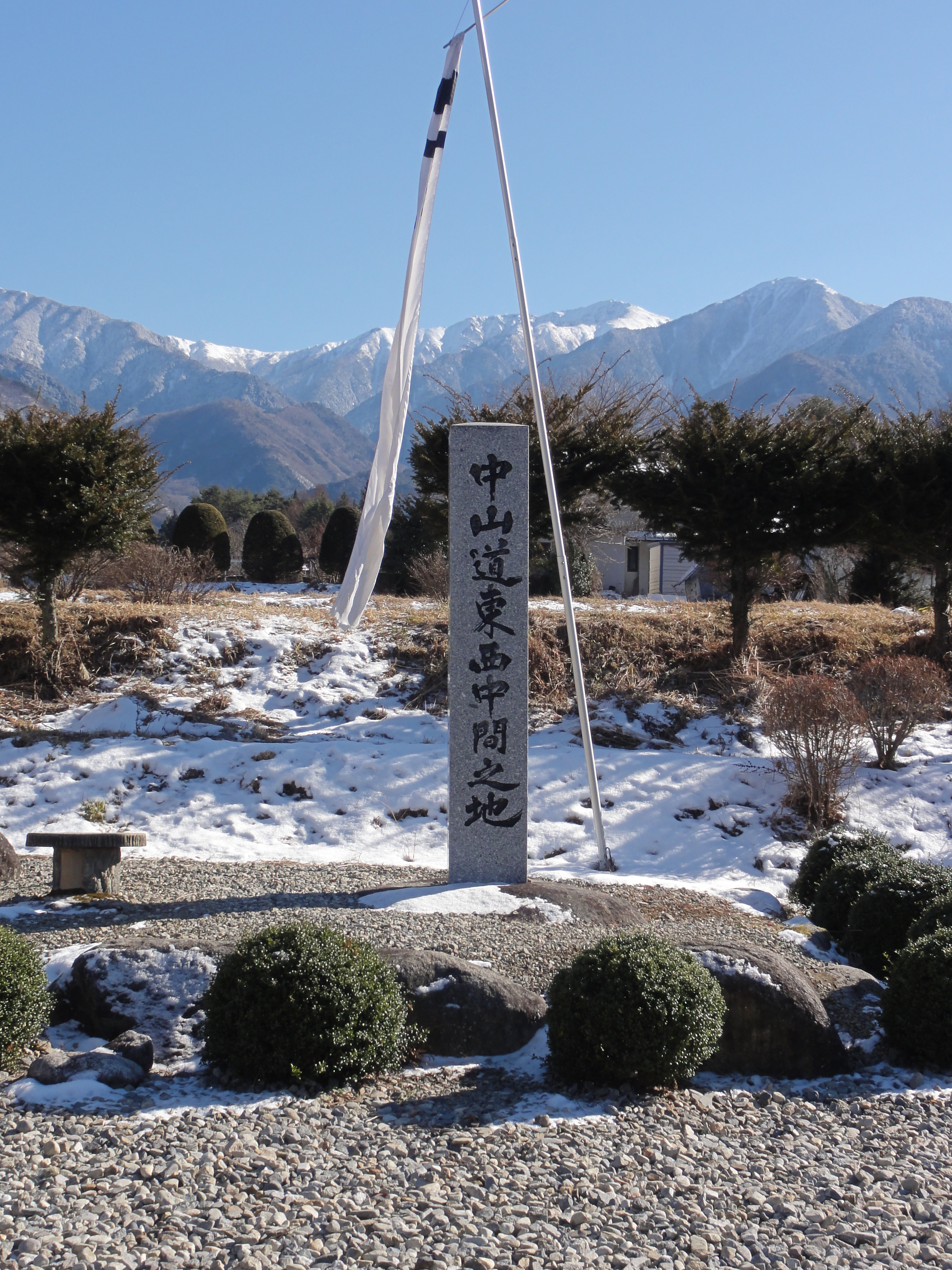 Monument in the middle of Nakasendo,Nagano Pref., Japan